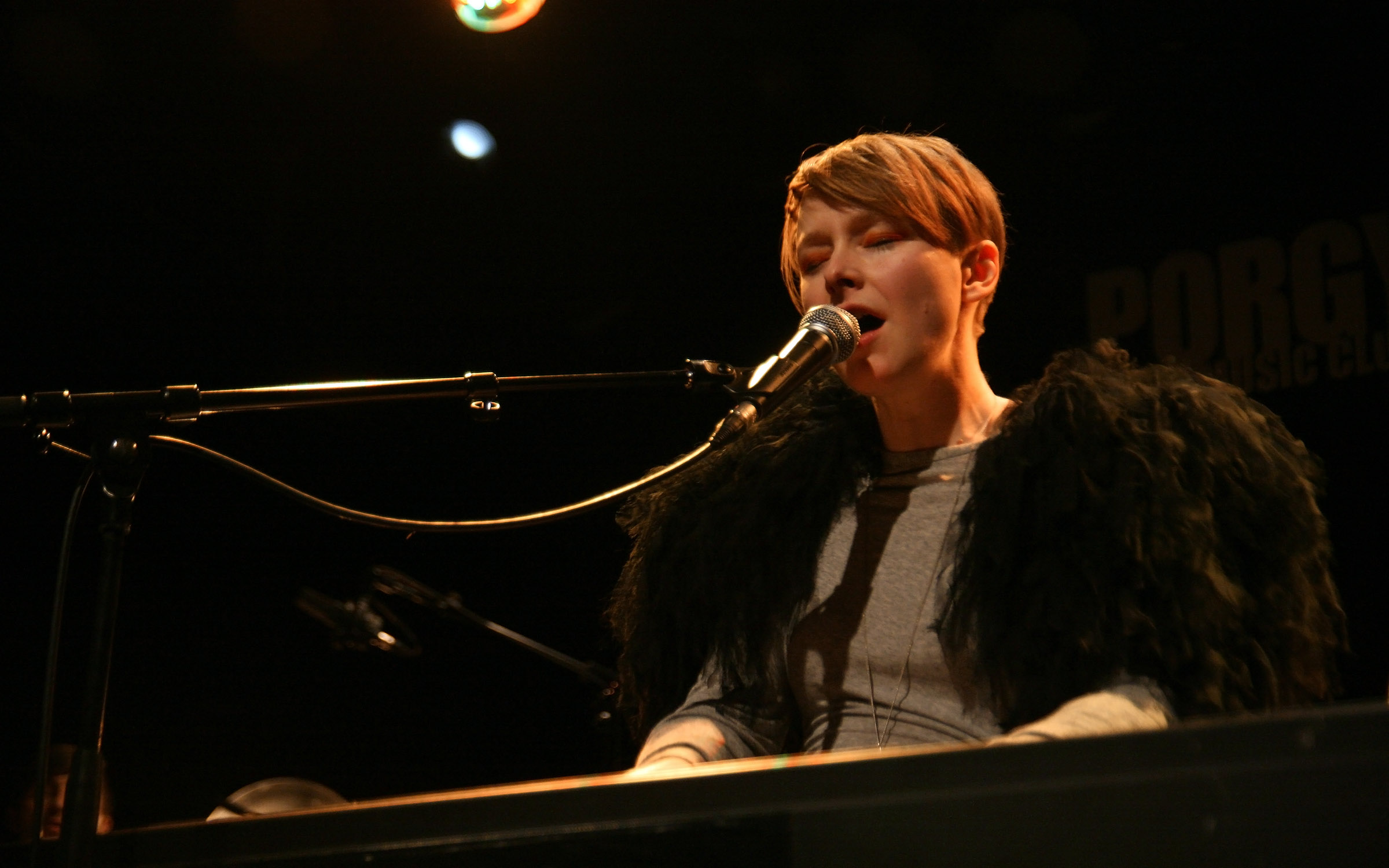 Violetta Parisini with Florian Cojocaru (git, voc, toys), Fabian Rucker (sax, voc, keys), Jojo Lackner (b), Alex Pohn (dr) - presenting her second album open secrets in 2012 at Porgy & Bess in Vienna, Austria.